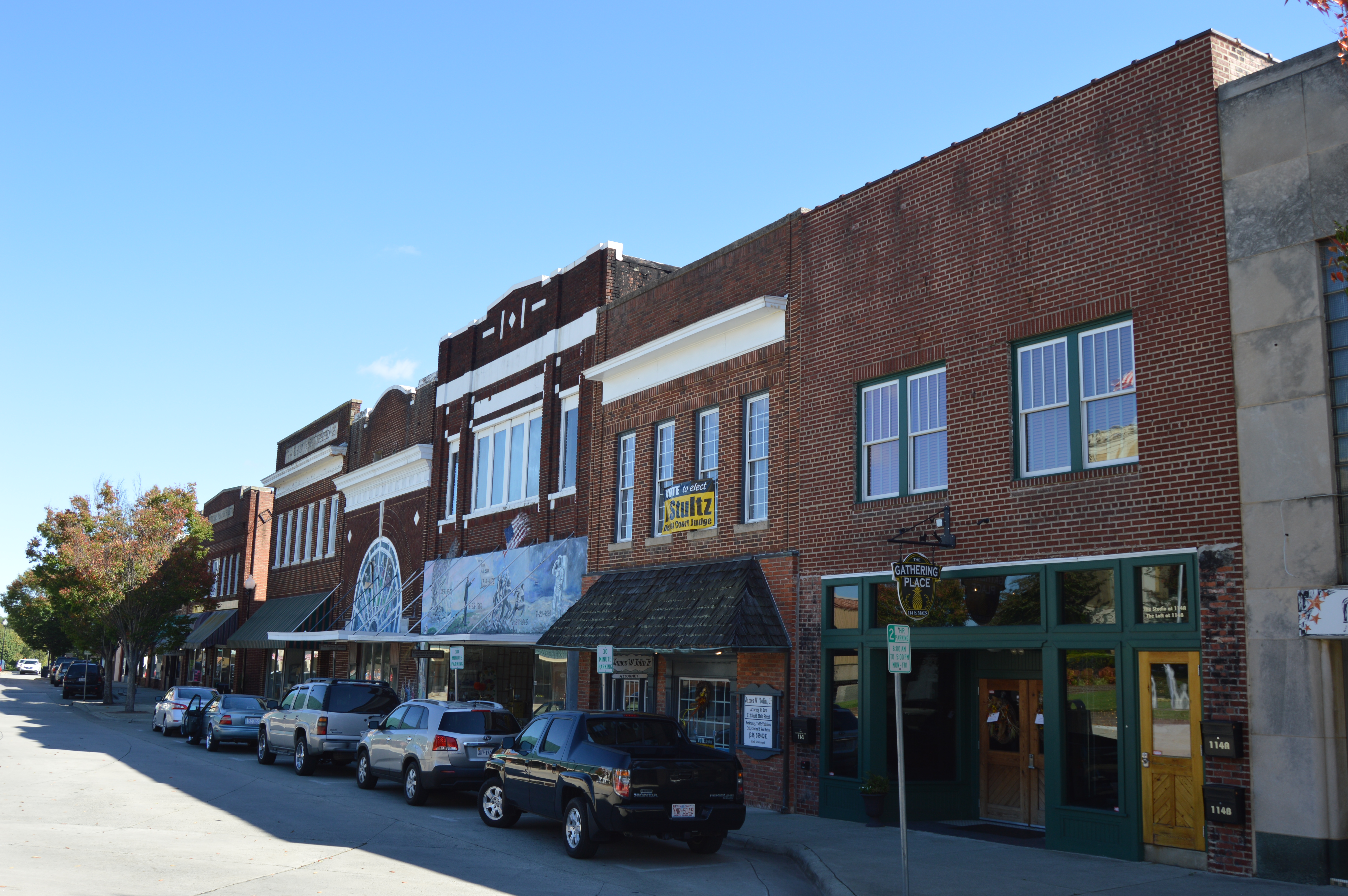 Buildings on the southeastern side of Main Street on the courthouse square in downtown Roxboro, North Carolina, United States. This block is part of the Roxboro Commercial Historic District, a historic district that is listed on the National Register of Historic Places.